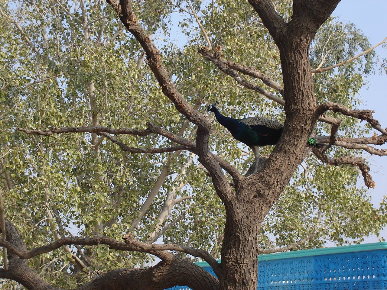 A peacock in a Khejri tree